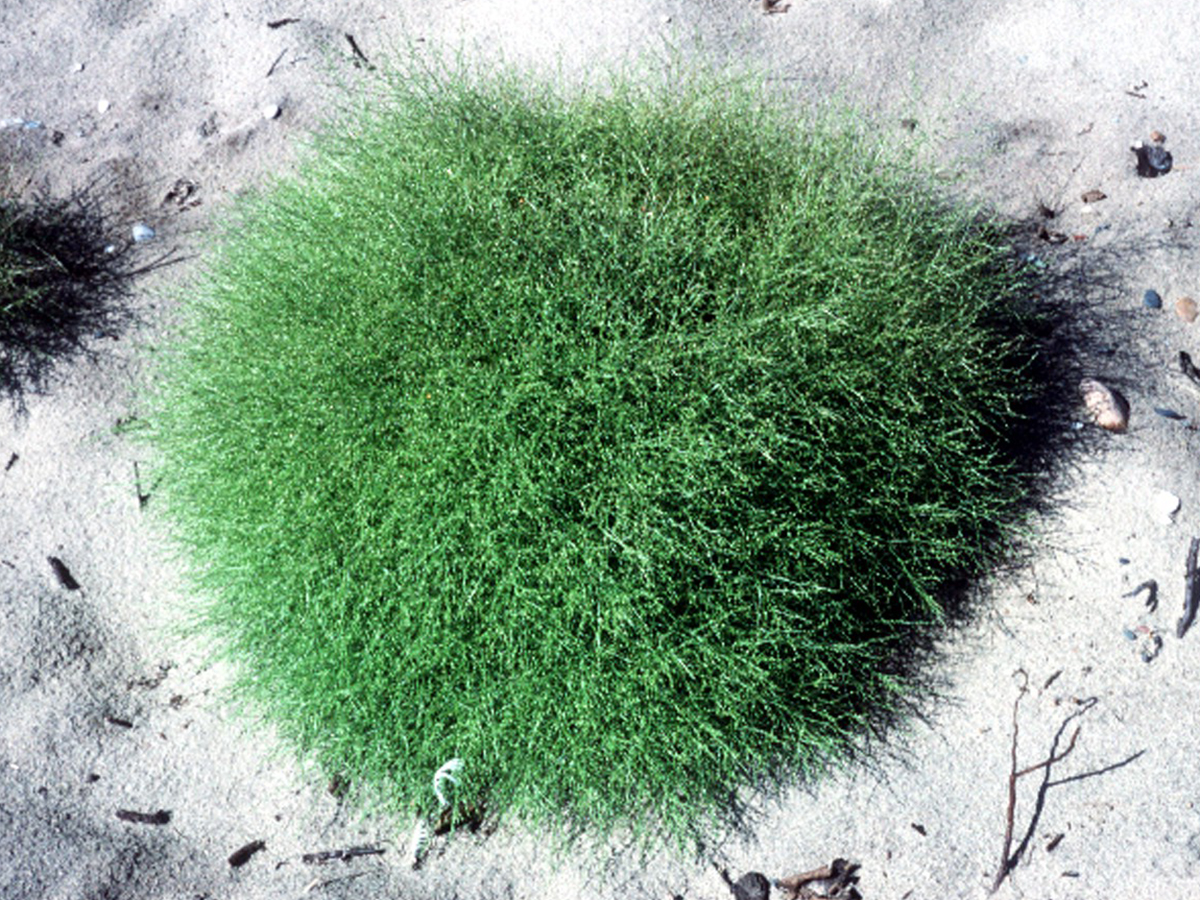 Cycloloma atriplicifolium (Spreng.) J.M. Coult. - winged pigweed